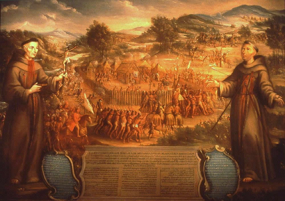 Per [1], this is a mural painted in 1765 that details the destruction of Mission Santa Cruz de San Saba (which occurred in 1758). The mural was commissioned by Pedro Romero de Terreros, who had sponsored the mission and whose cousin died in the attack. The unsigned mural is attributed to Jose de Paez. It was titled "The Destruction of Mission San Sabá in the Province of Texas and the Martyrdom of the Fathers Alonso de Terreros, Joseph Santiesteban"